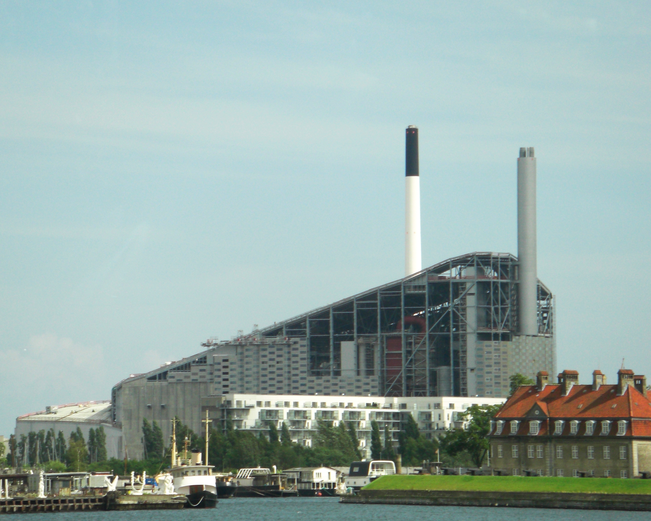 Waste-to-power incinerator plant "Amager Slope" ("Amager Bakke"), Copenhagen, under construction